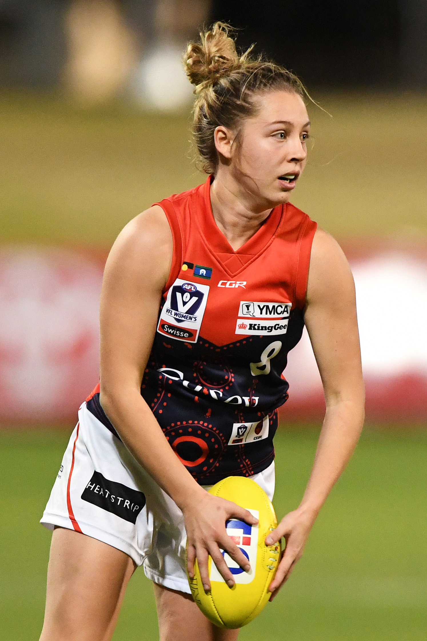 Tyla Hanks of Casey during the 2019 VFLW round 11 match between NT Thunder and Casey at Traeger Park on Saturday, 20 July 2019 in Alice Springs, Northern Territory.